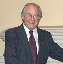 Gildas Molgat, Canadian politician